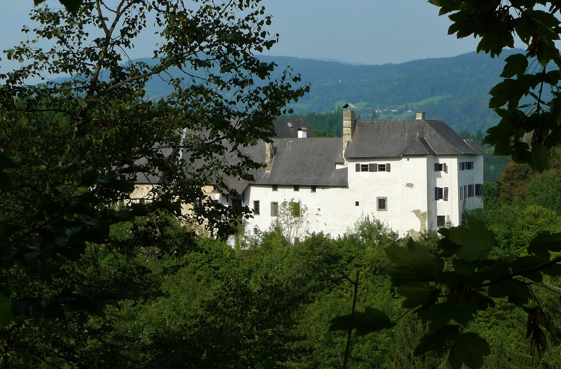 View from south east at the castle Ratzenegg in the municipality Moosburg, district Klagenfurt Land, Carinthia, Austria